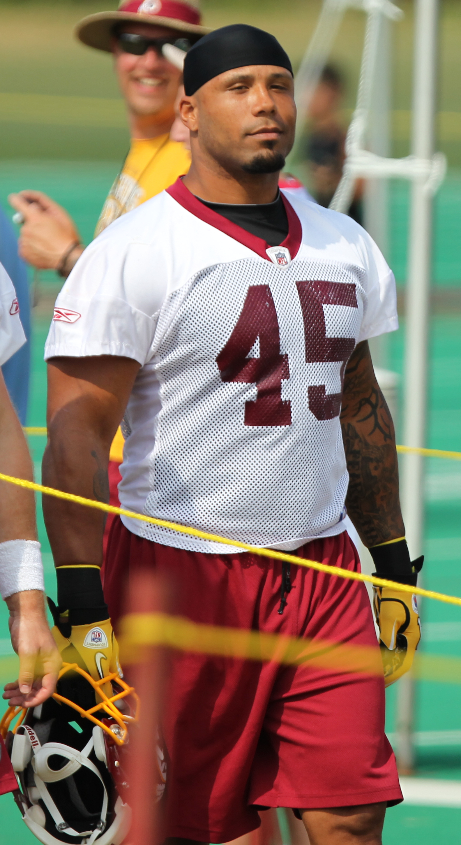 Mike Sellers at Washington Redskins Training Camp August 4, 2011